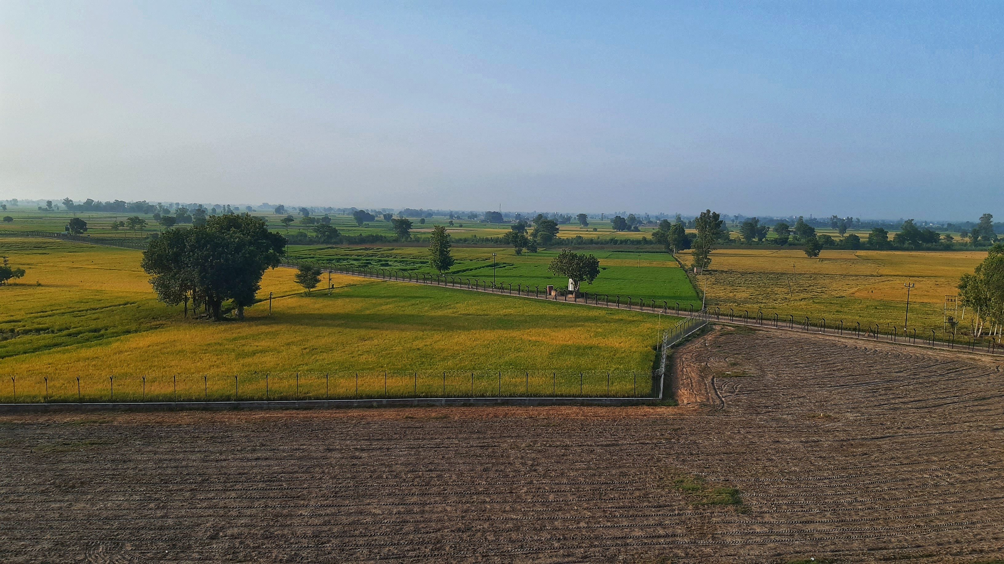 A view from Konkan railway route